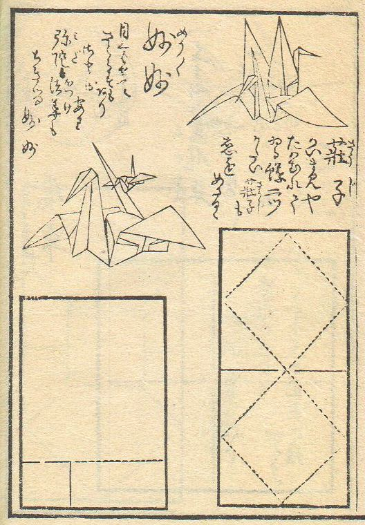 Hiden Senbazuru Orikata ("The Secret of One Thousand Cranes Origami") is one of the oldest known origami books